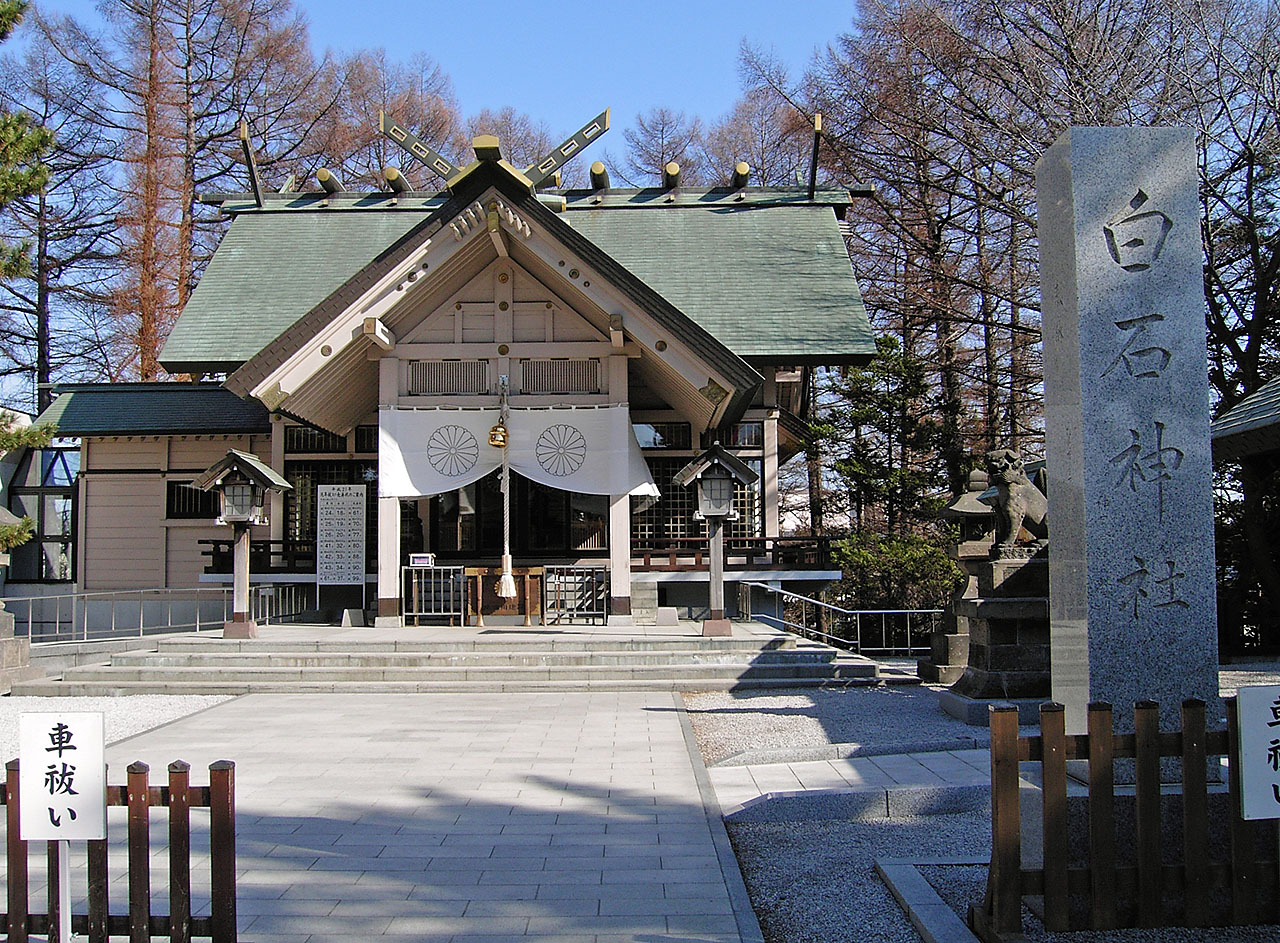 Shiroishi Jinja Shrine in Sapporo